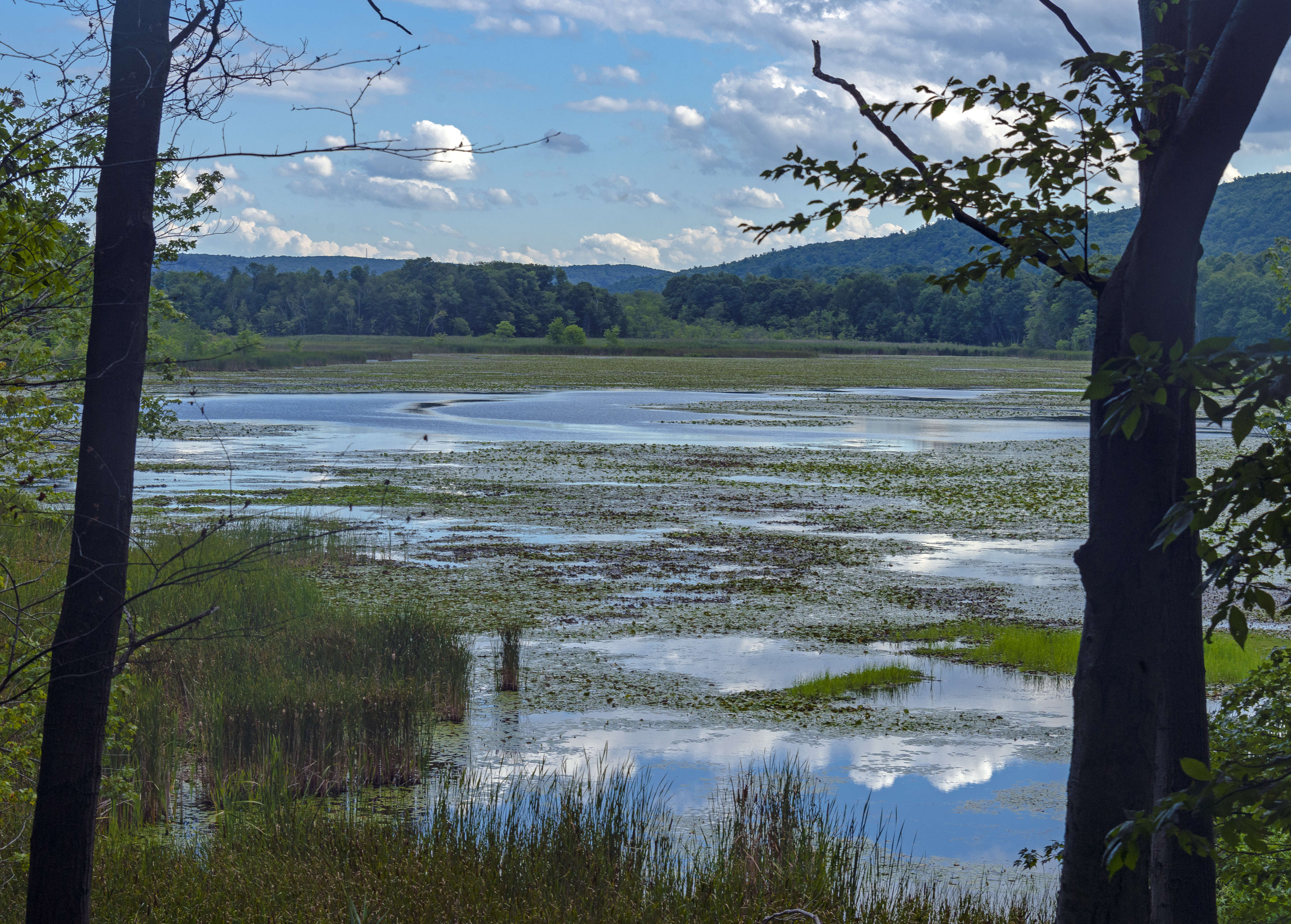 Thompson Pond, Pine Plains, NY, USA, seen from a popular overlook on the trail.